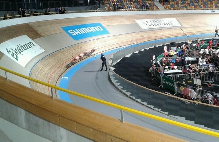 2013 European Track Championships, men's team pursuit. The Dutch team